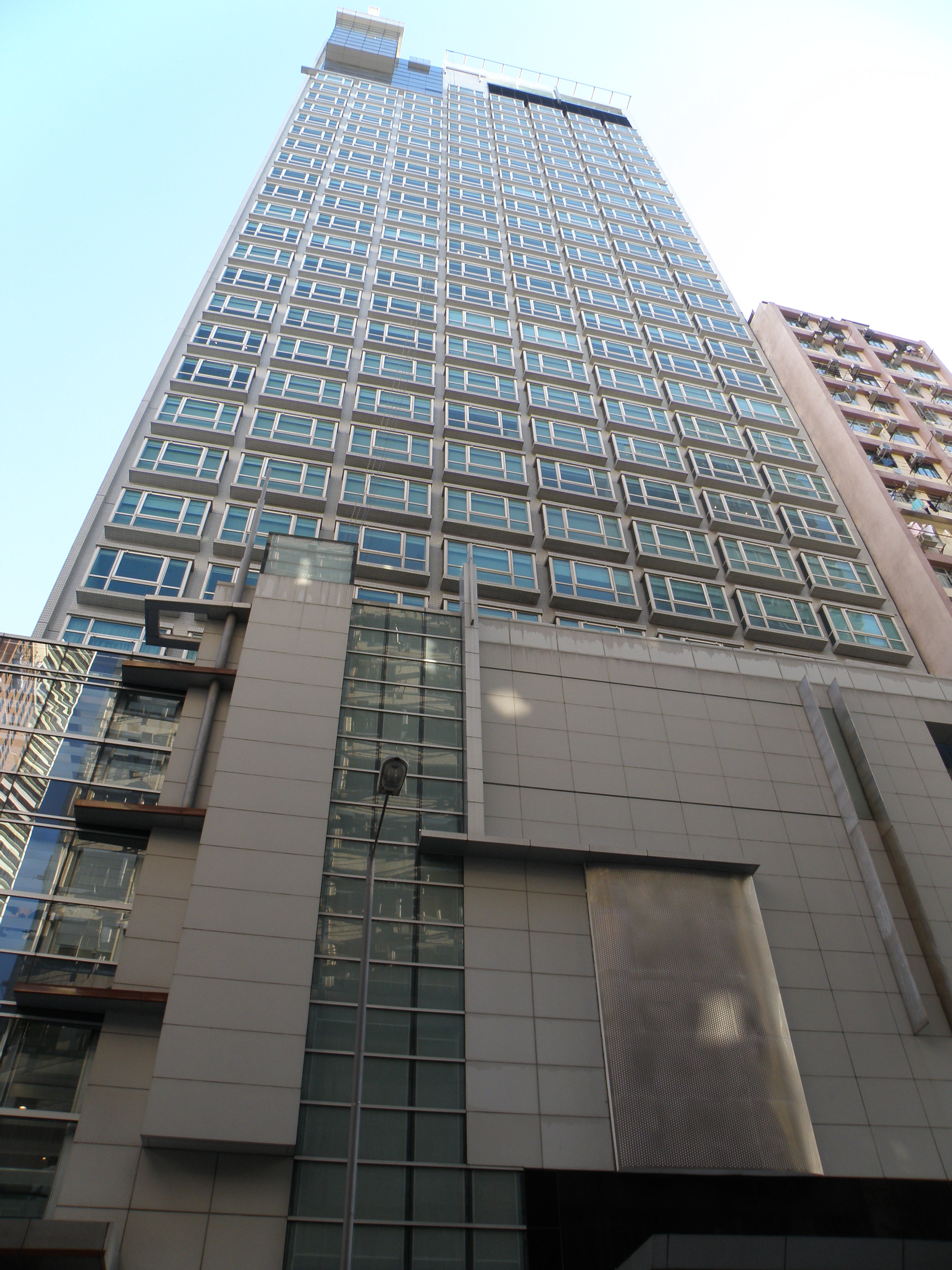 Traders Hotel Hong Kong in Shek Tong Tsui, Hong Kong.